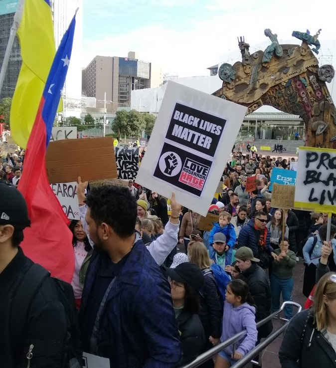 An image from the start of the June 14 Black Lives Matter protest in Auckland, New Zealand. Around 5,000 were present.